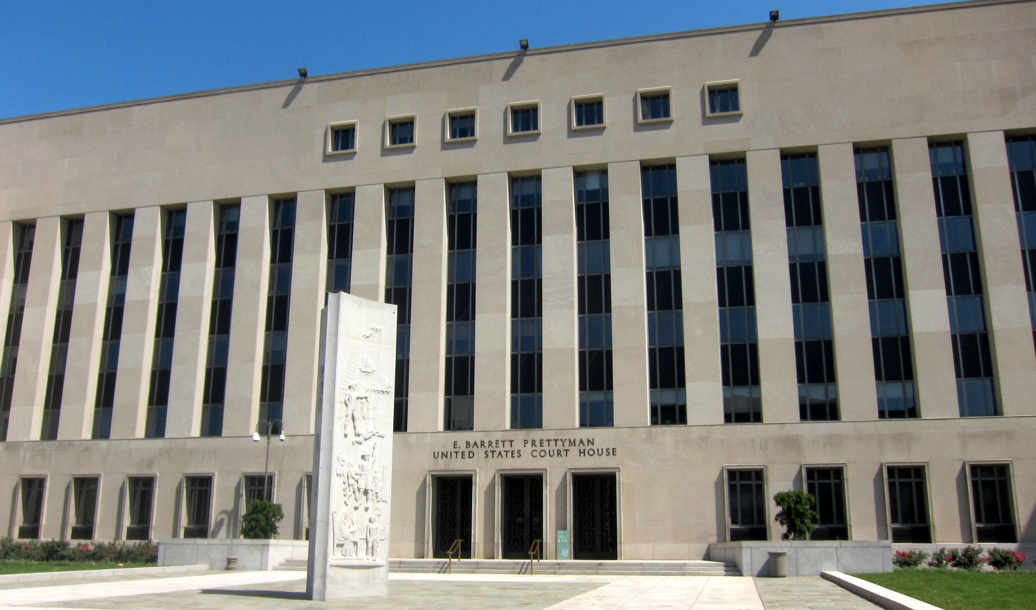 The E. Barrett Prettyman Federal Courthouse located at 333 Constitution Avenue, N.W., in the Judiciary Square neighborhood of Washington, D.C. The building is listed on the National Register of Historic Places and is designated as a contributing property to the Pennsylvania Avenue National Historic Site.